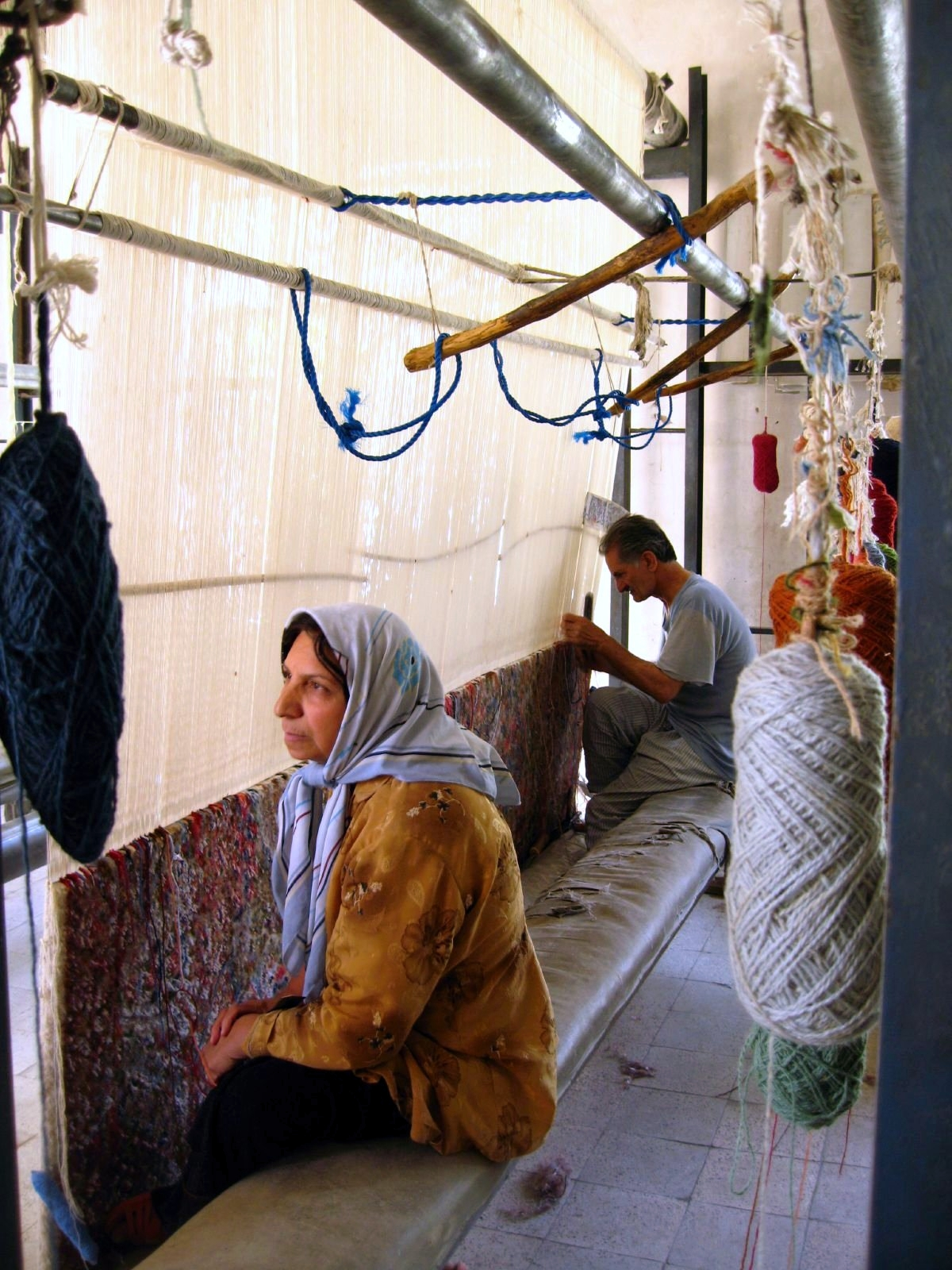 Carpet weaving, Mahan, Iran